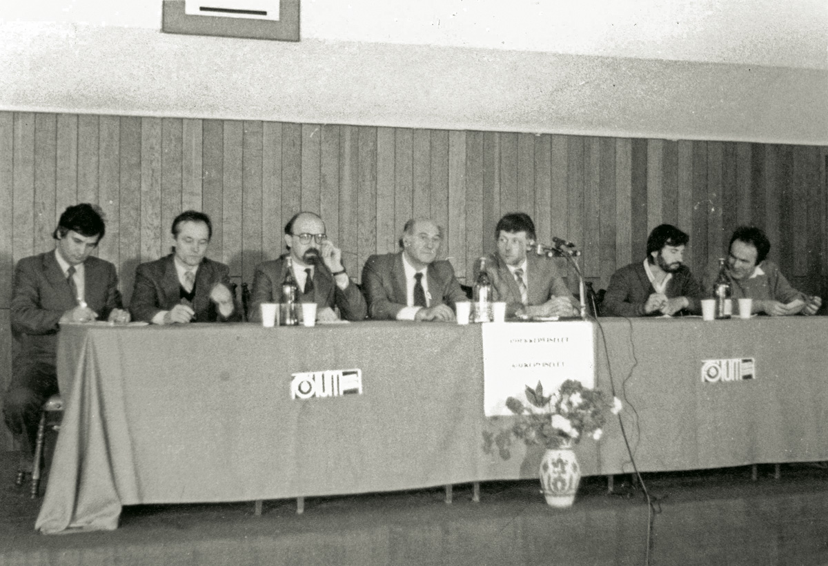 Former presidents Marko and Domokos